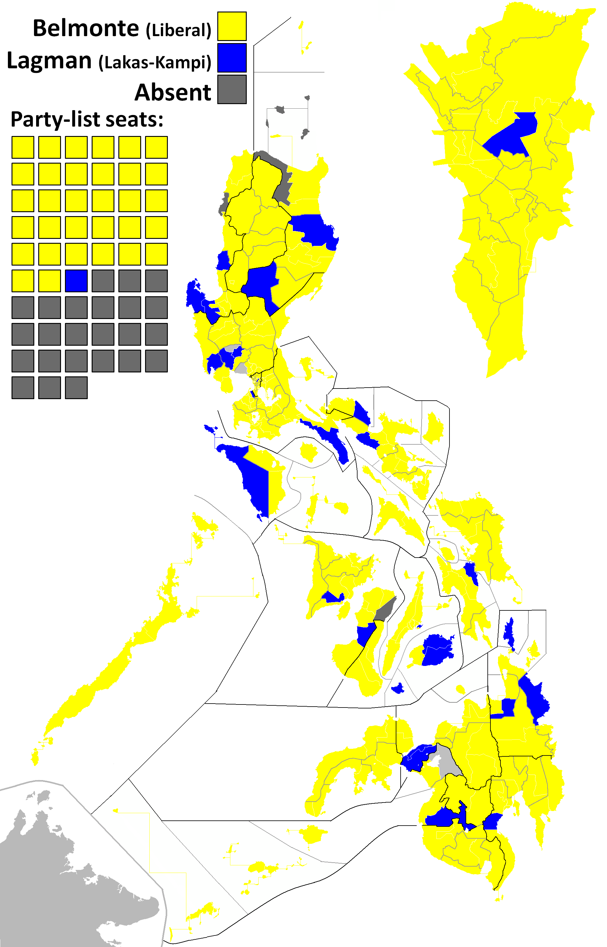 How the congressmen voted for speaker at the opening of the w:15th Congress of the Philippines. Source: House Journal no. 1